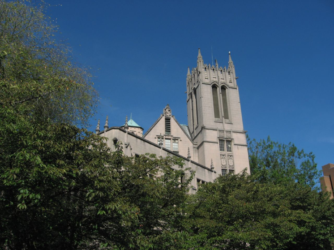 Gerberding Hall, University of Washington, Seattle, Washington